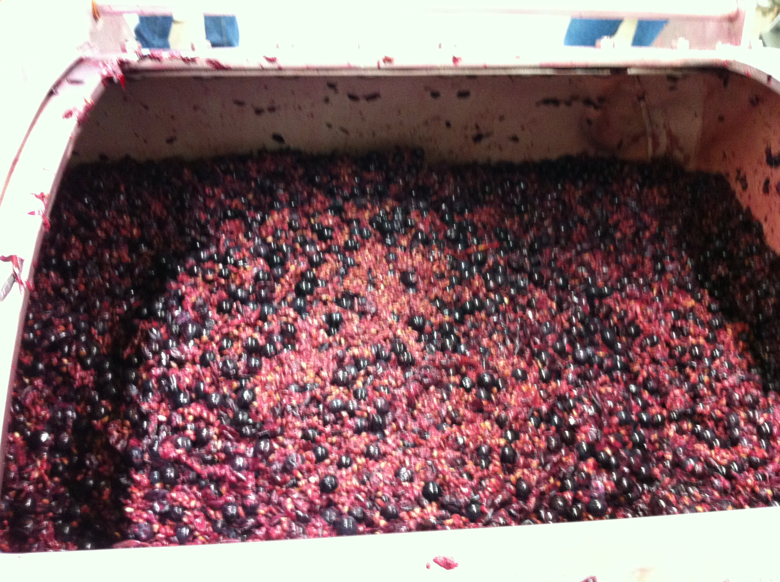 Mourvedre grapes loaded into the press that is about to be closed and pressed off the skins